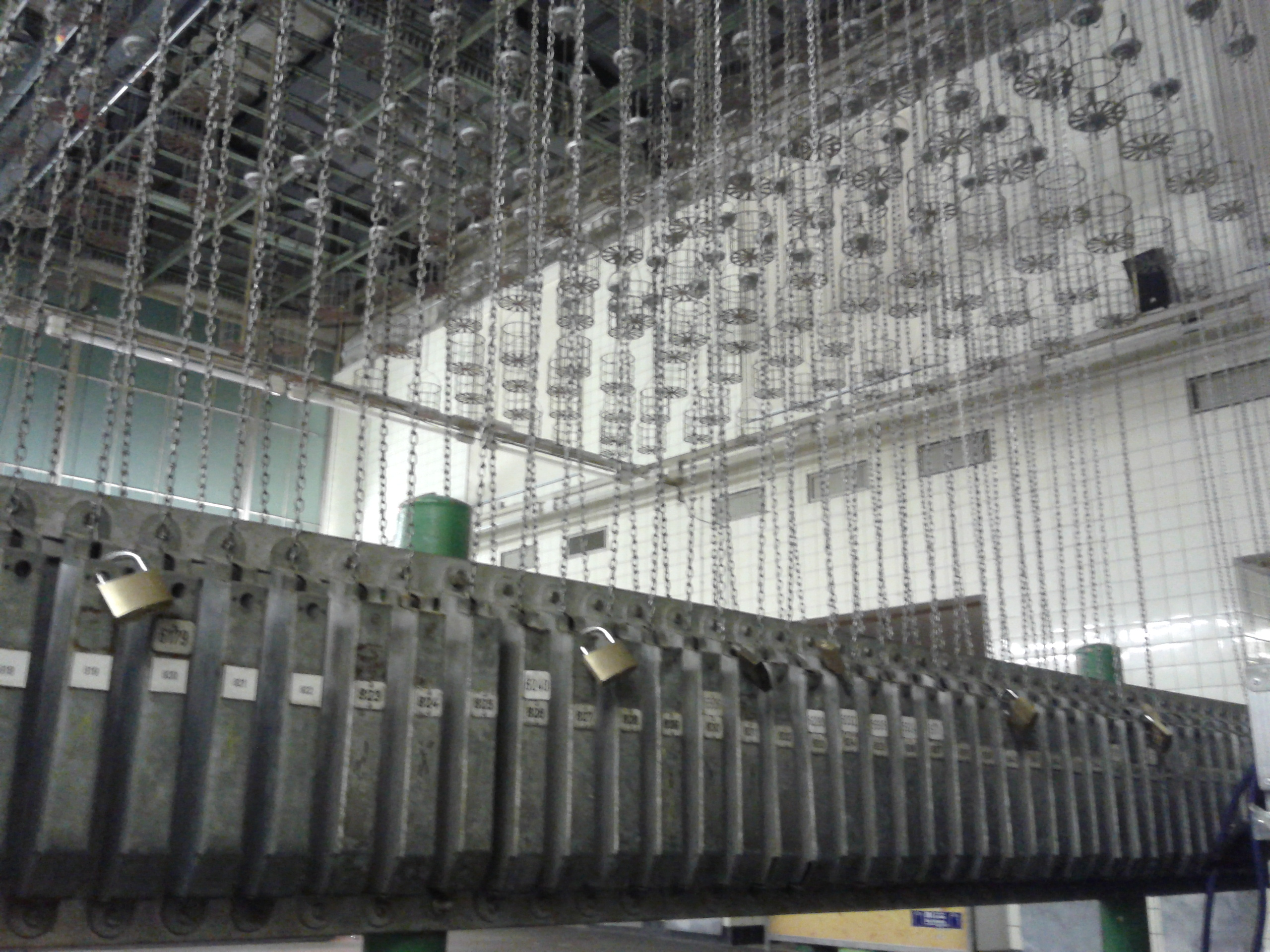 Devicices for pulling up the clothes of the miners